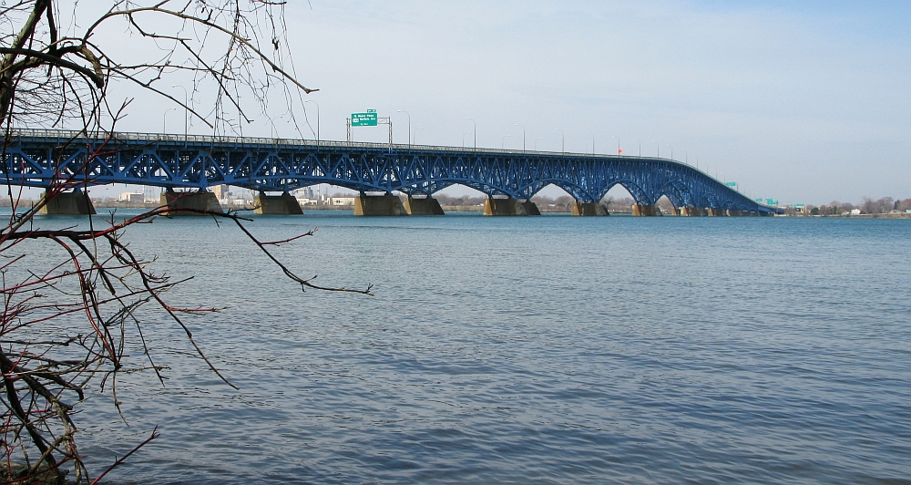 Niagara River, from Grand Island, New York. In the distance is the North Grand Island Bridge.